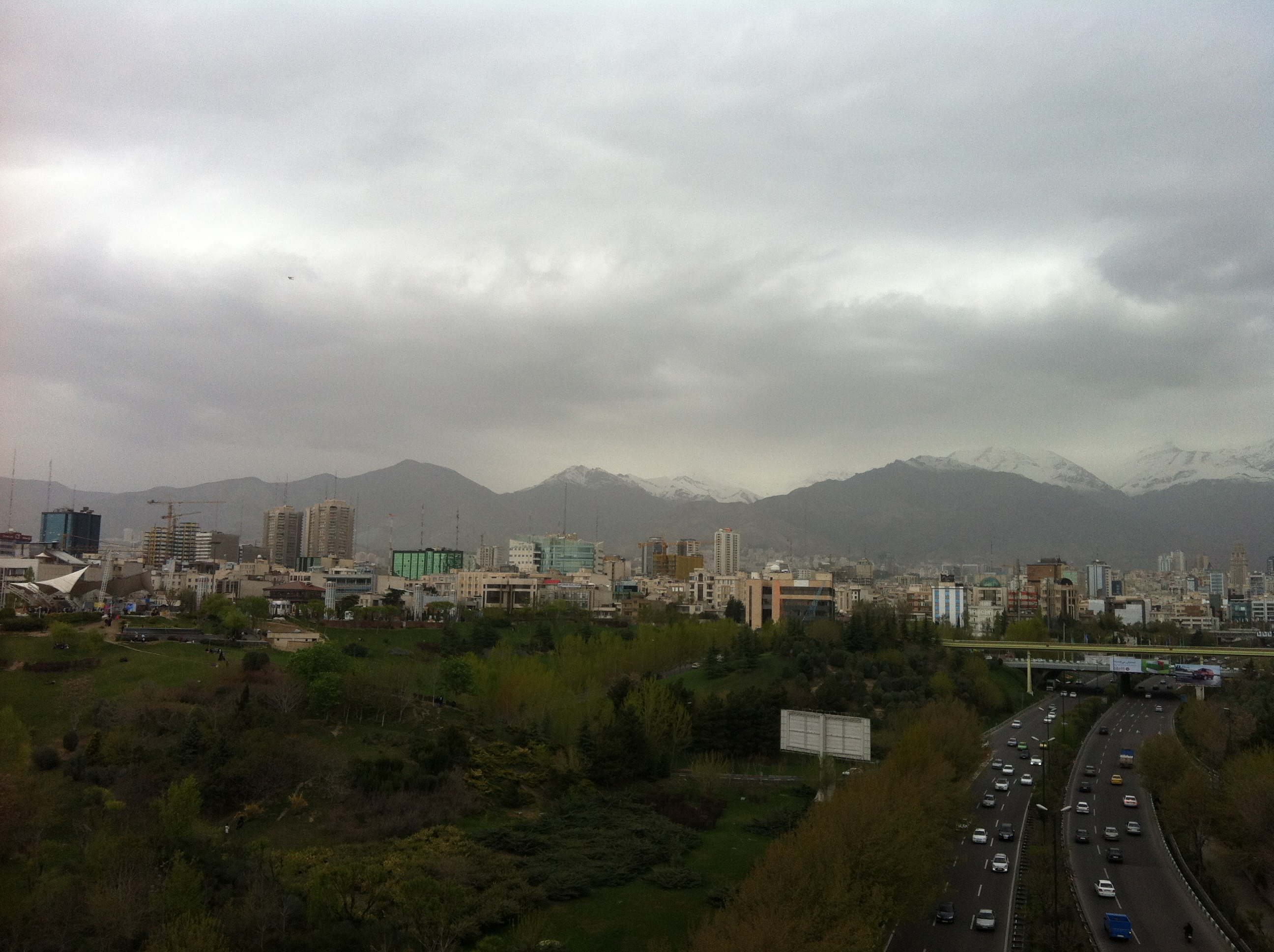 Modares highway view from Tabiat Bridge facing North